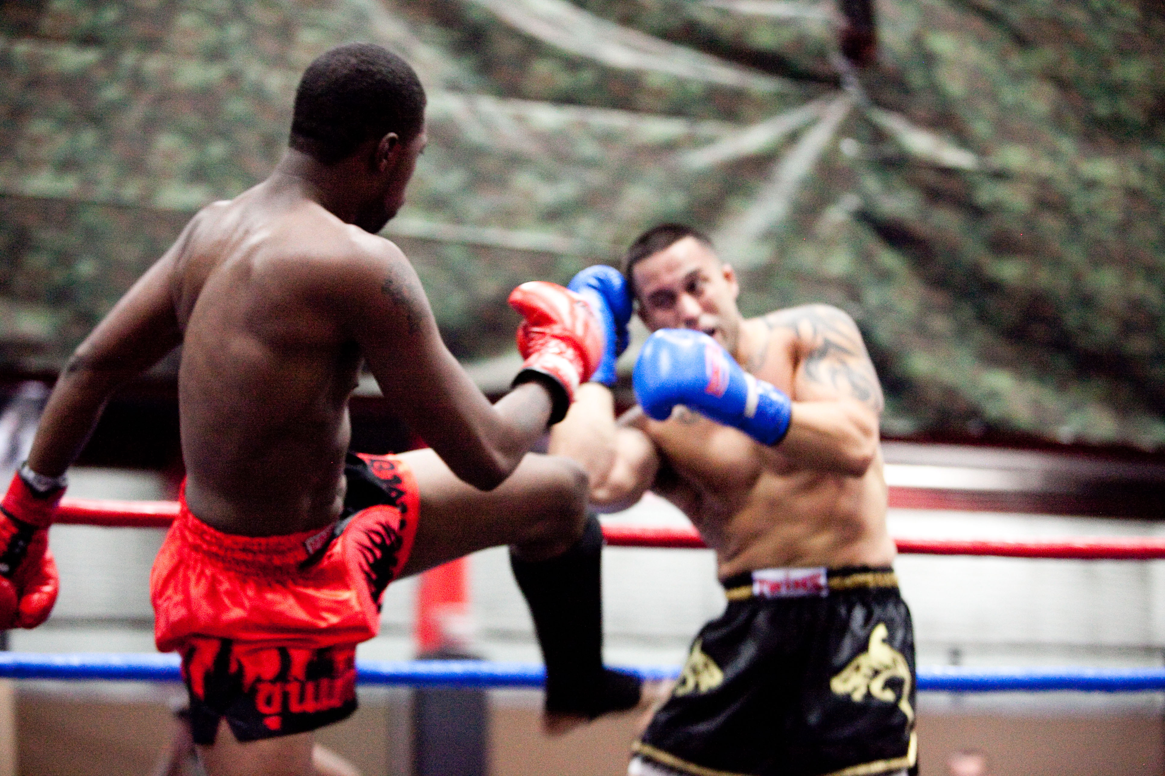 Muay Thai Championship Boxing Match in Sterling, VA - This is the fighter, Jovan Davis.